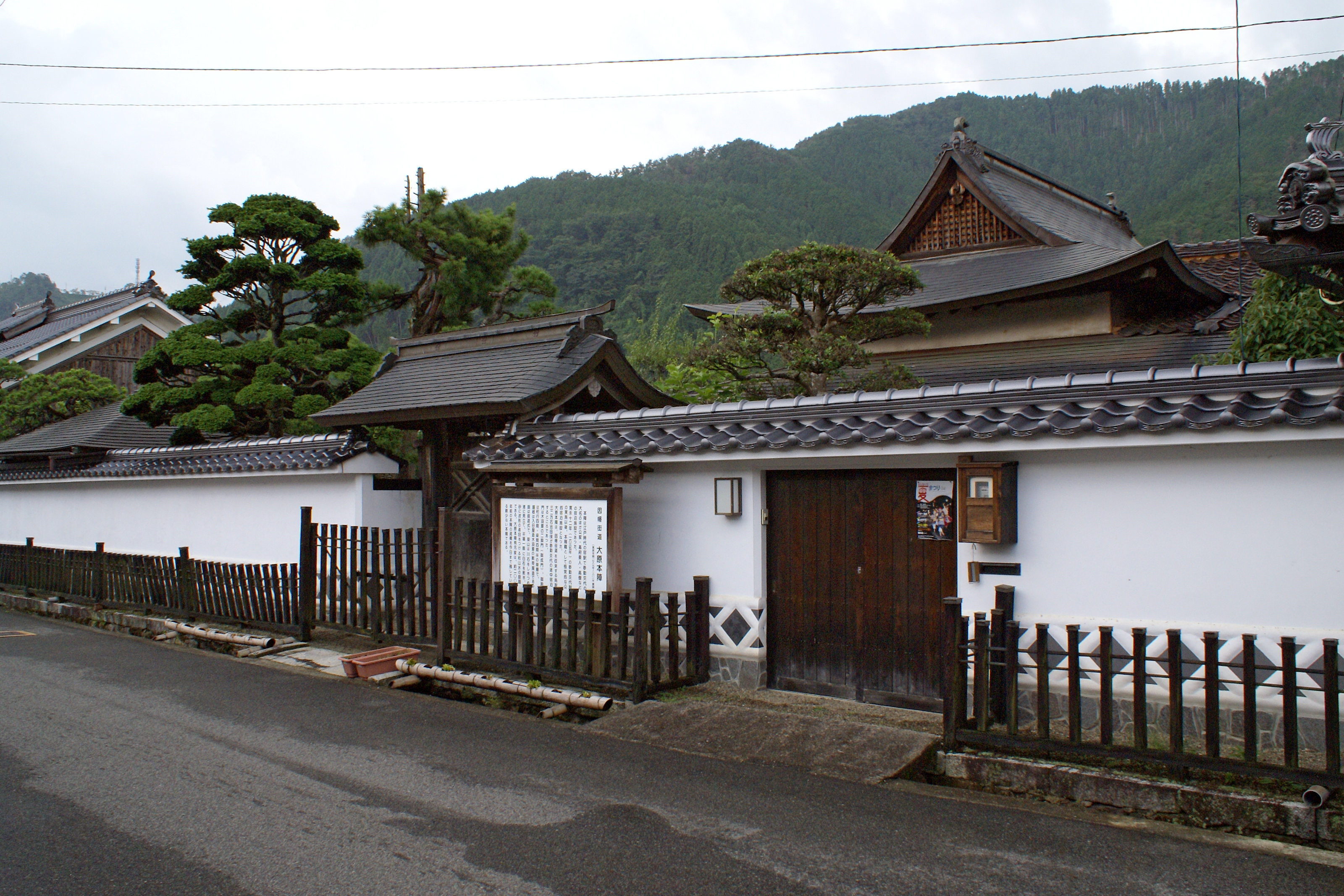 a street scene of Ohara-juku in Mimasaka, Okayama prefecture, Japan